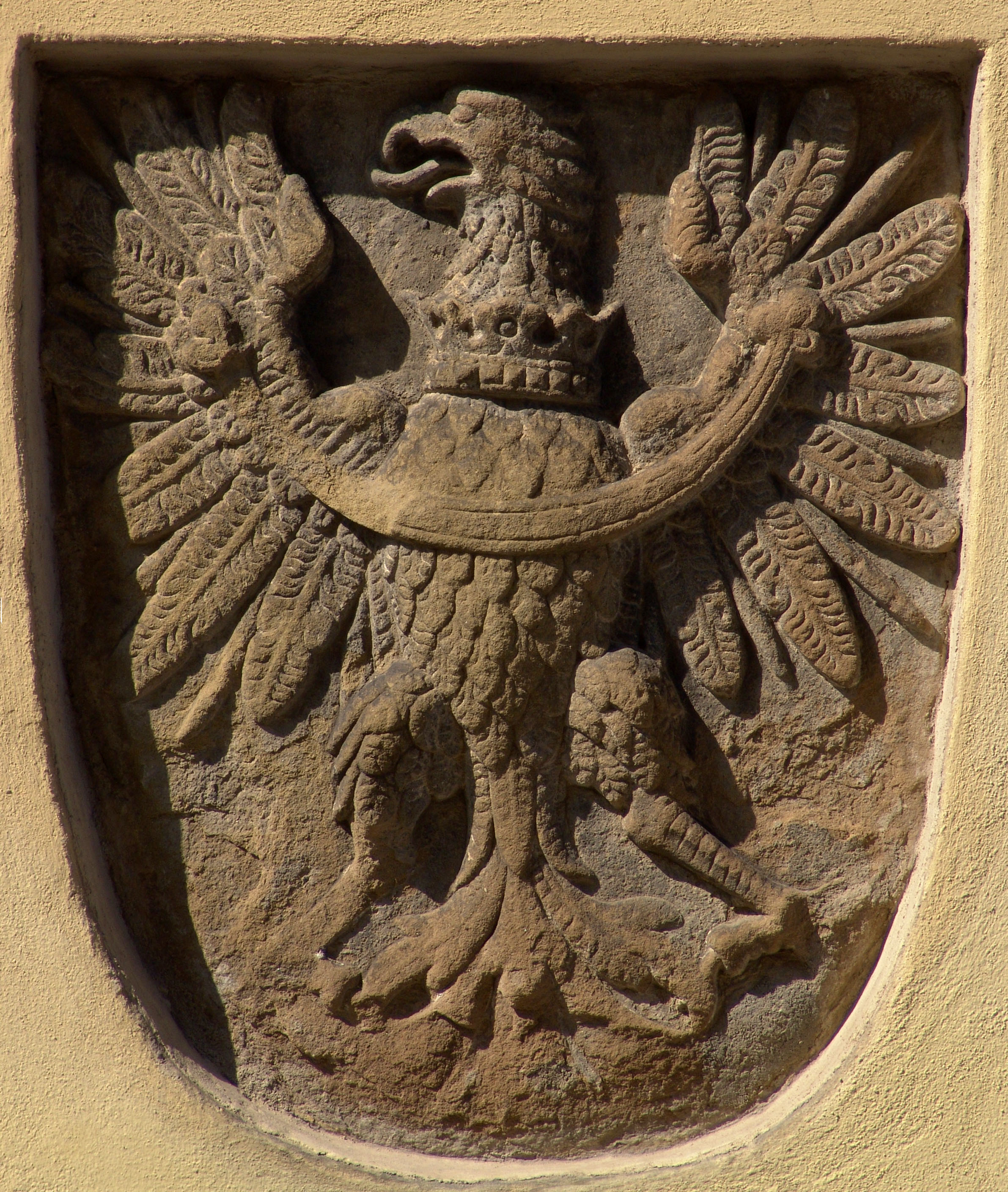 Sandstone coat-of-arms of Hynek Jindřich Novohradský z Kolovrat in Petrov 8 (Brno, Czech Republic)